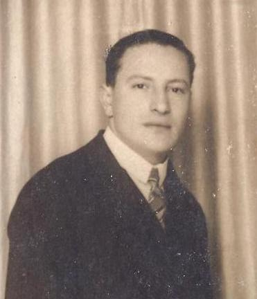 Pancho Vladigerov, Prague, 23-25.03.1928.